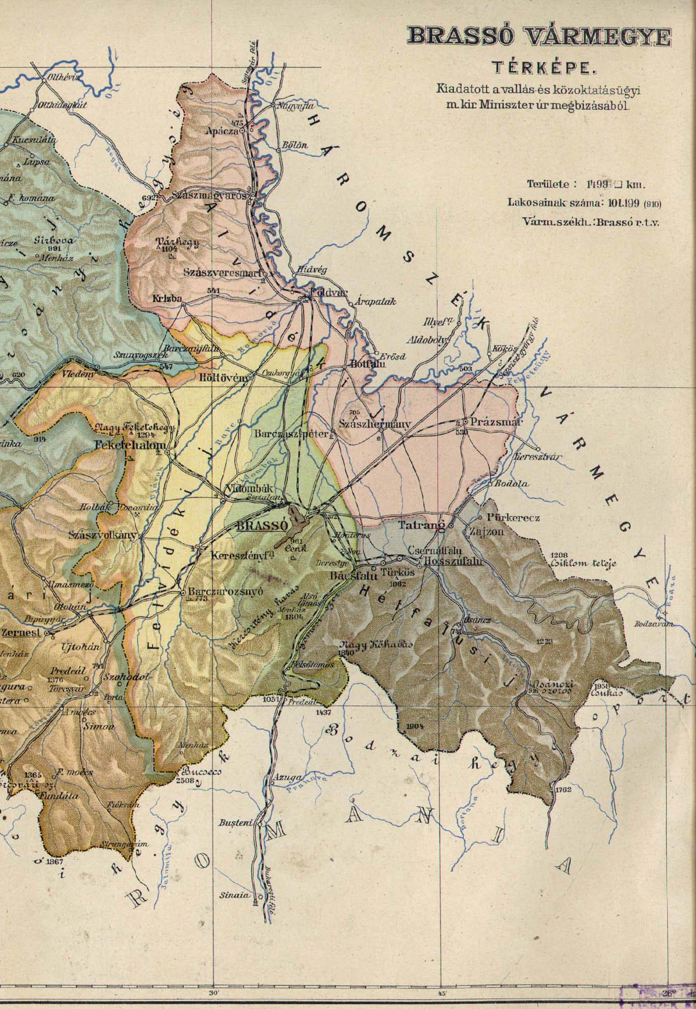 Administrative map of the county of Brassó in the Kingdom of Hungary